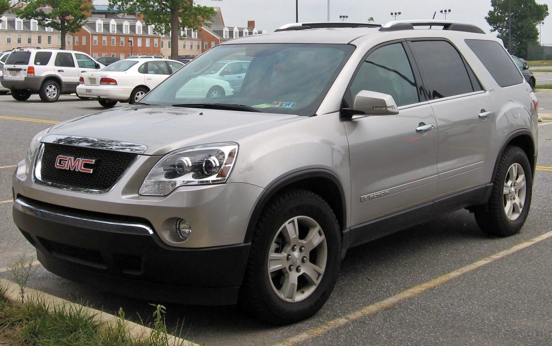 2007 GMC Acadia photographed in USA.